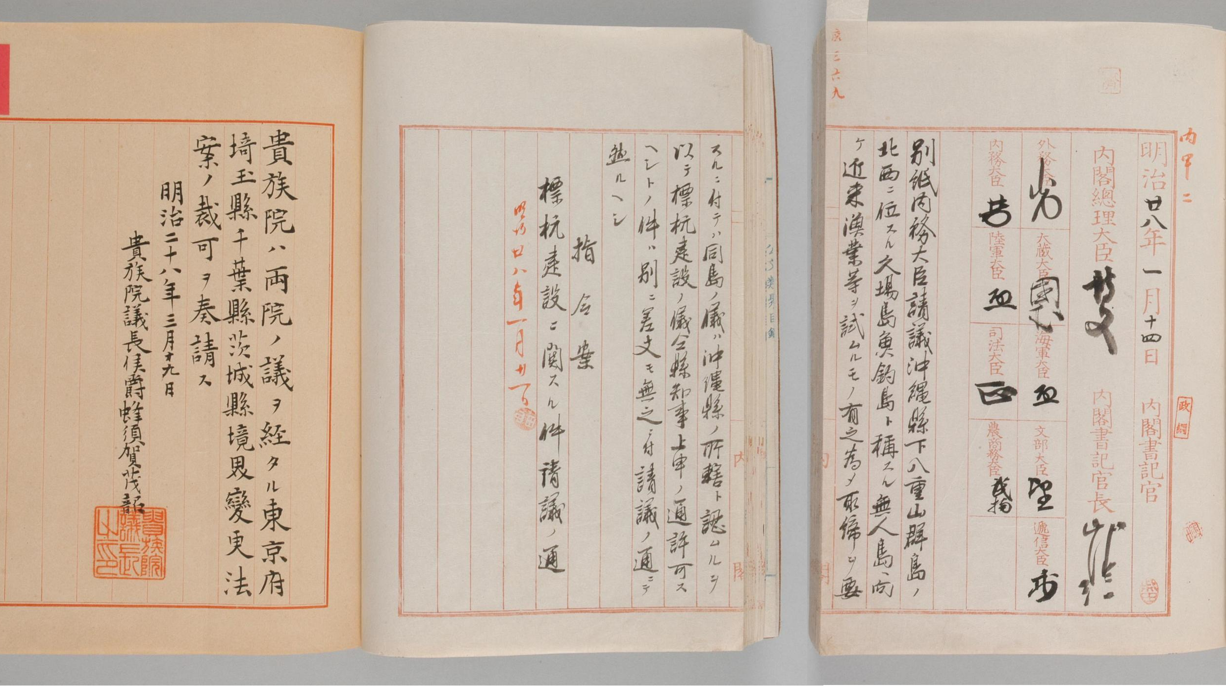 Japanese government's resolution on Senkaku Islands in January 14, 1895 which stated that the island was to be incorporated into Okinawa Prefecture.